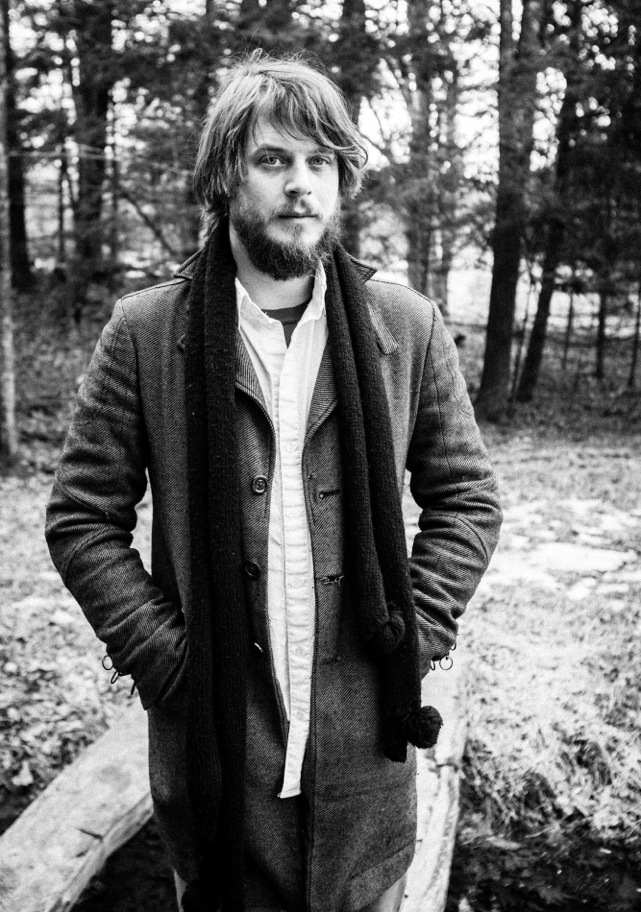 photo of Marco Benevento taken by Michael DiDonna in Saugerties NY 2012